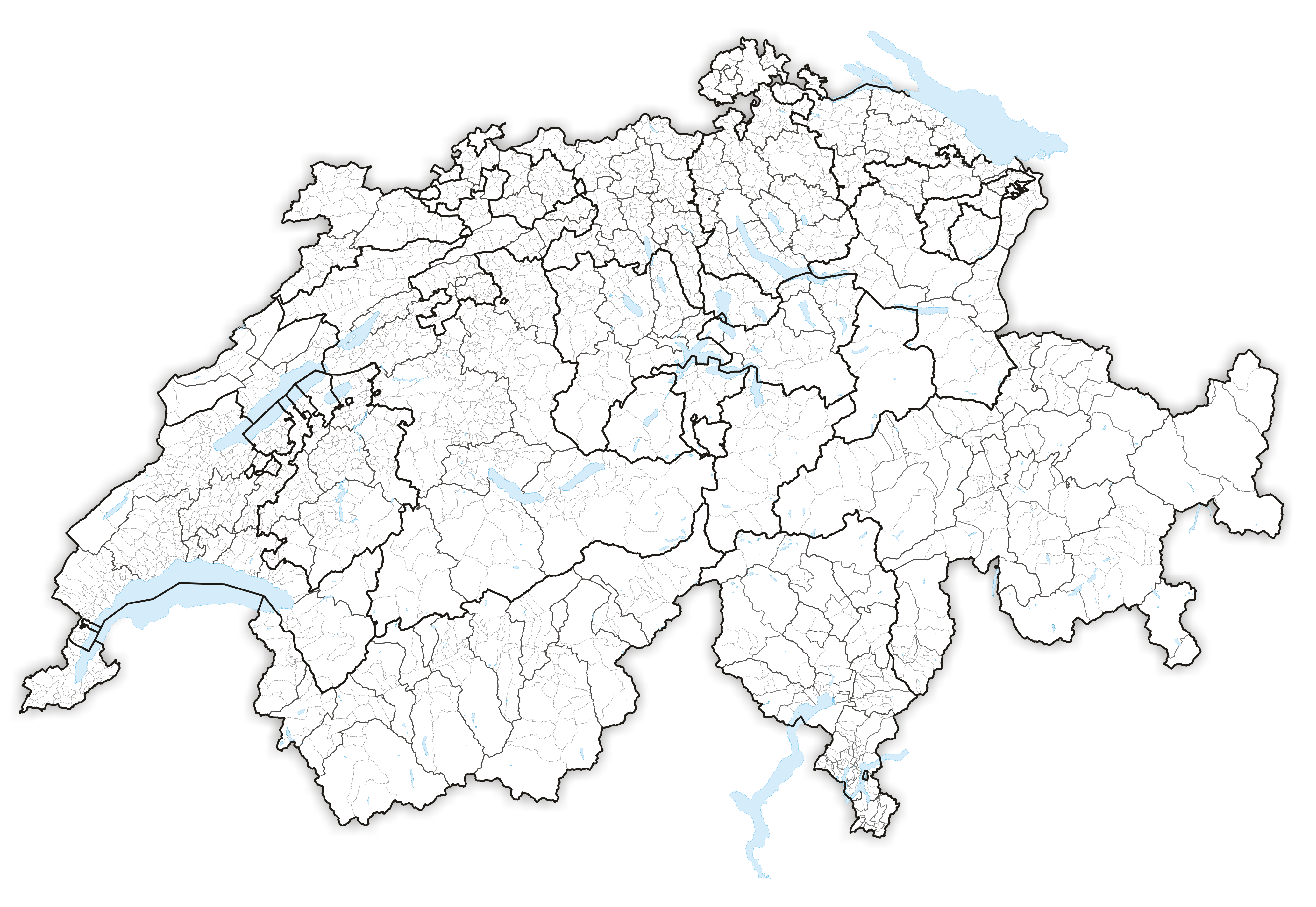 Municipalities in Switzerland